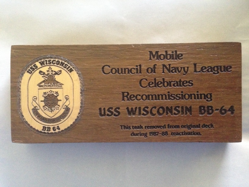 This is a teak deck piece from the USS Wisconsin. Mobile Council of Navy League celebrates the ship's recommissioning.